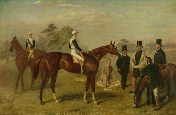 Painting of 1861 Epsom Derby winner Kettledrum by Harry Hall.